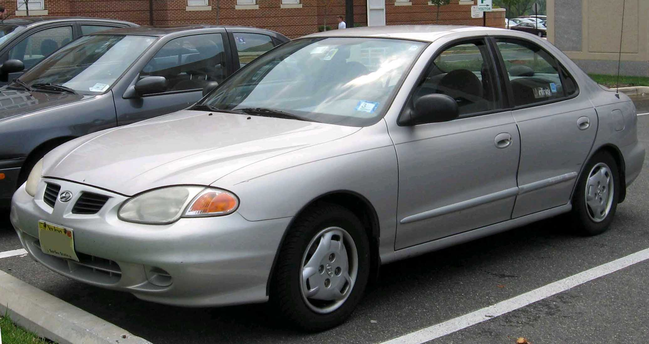 1998-2000 Hyundai Elantra photographed in USA.